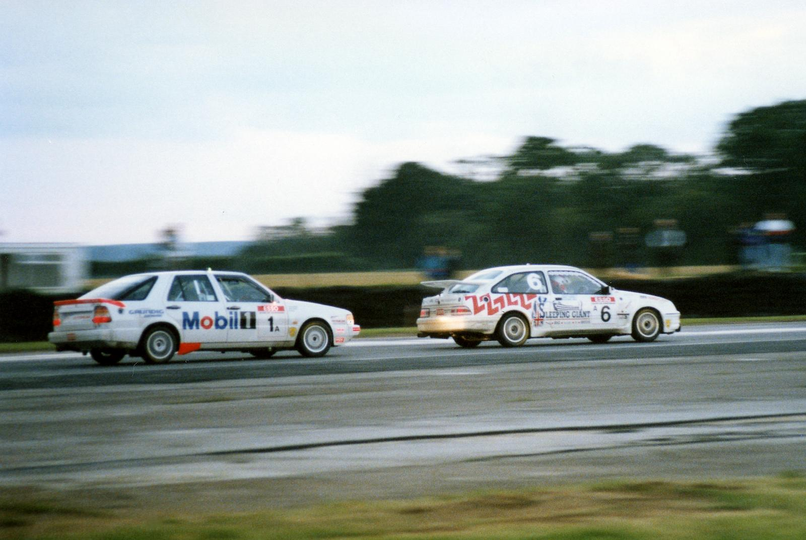 The Saab 9000 T16 of Lionel Abbott, Ian Flux and David Sears battling a Ford Sierra Cosworth going into Riches Corner at the 1990 Willhire 24 Hour, Snetterton